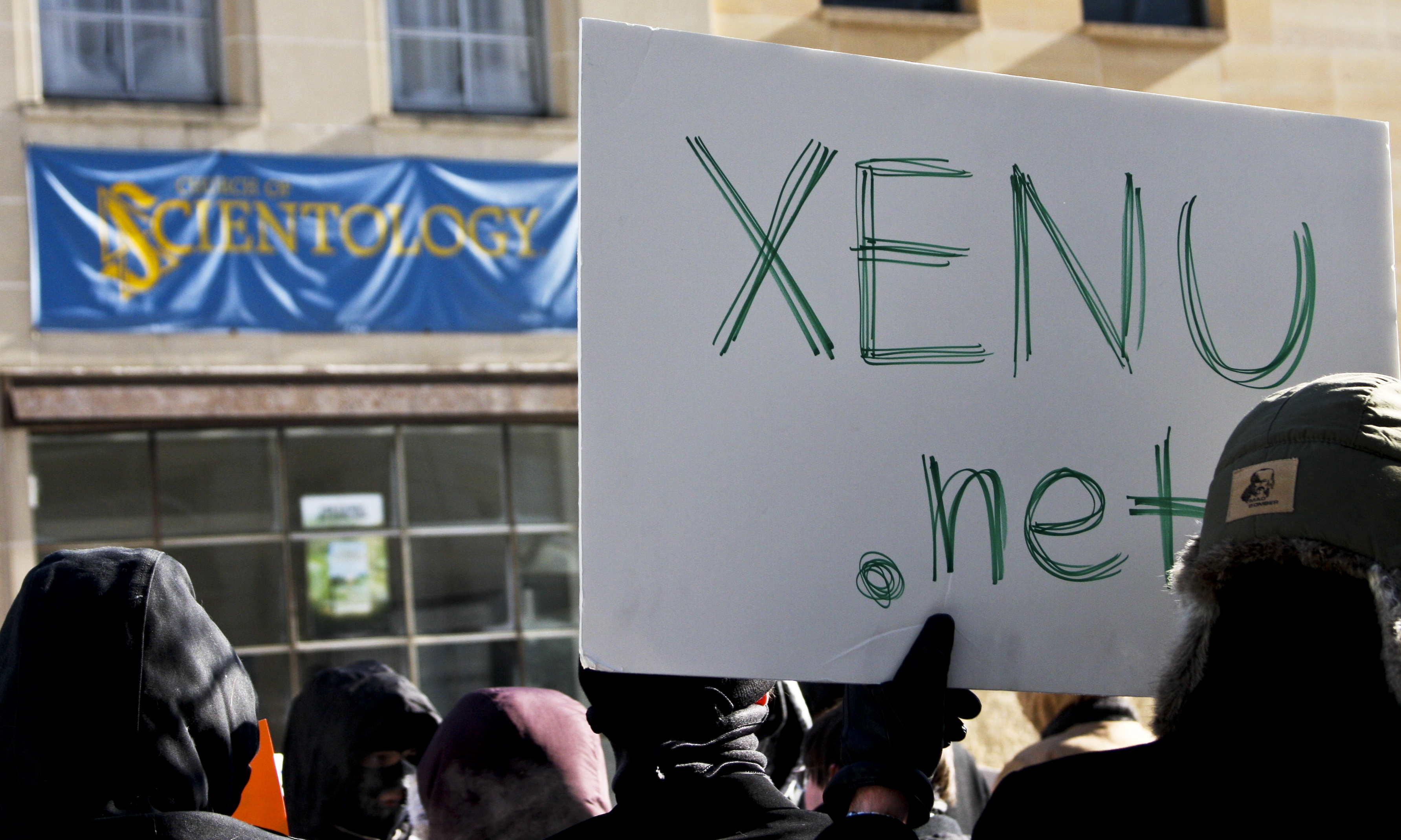 Minneapolis Scientology Protest